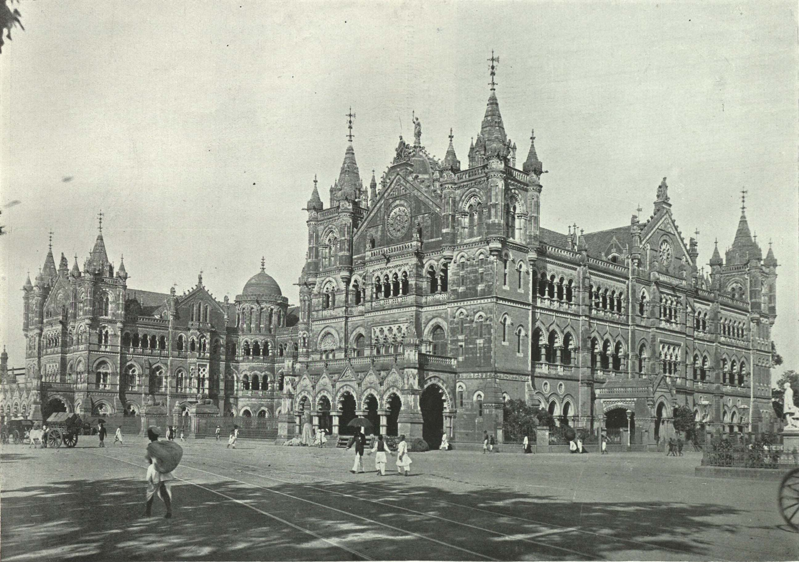 The building is architecturally considered to be one of the finest Railway Terminus in the world.